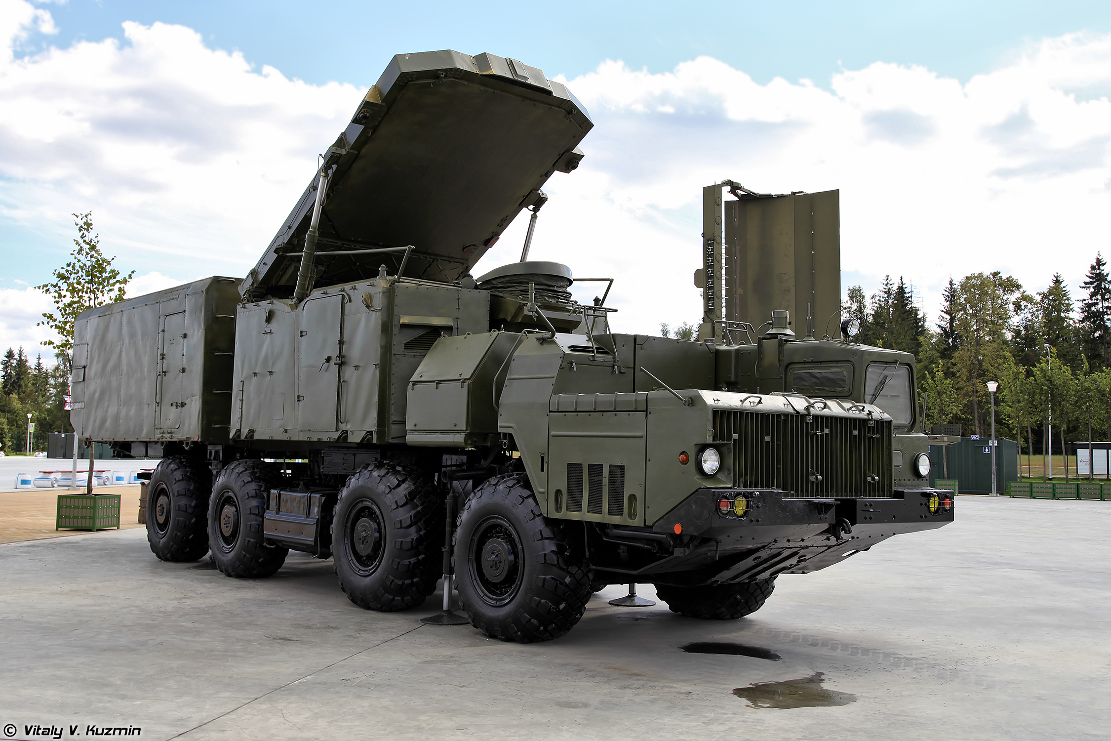 30N6E2 radar for S-300PM2 system